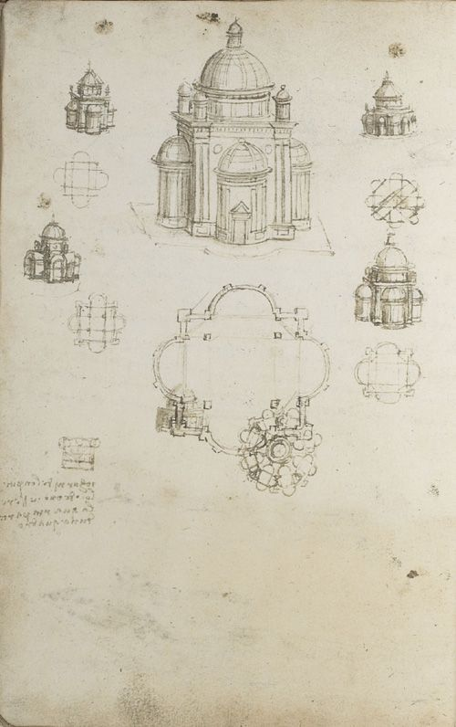 Codex Ashburnham